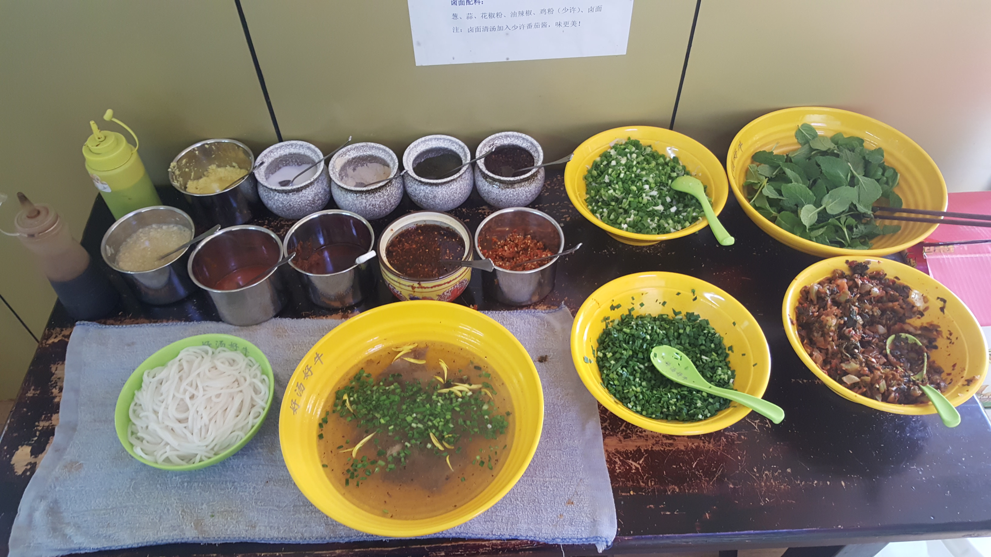 A large serving of beef mixian noodles with available condiments, as served in a typical local restaurant in Kunming.